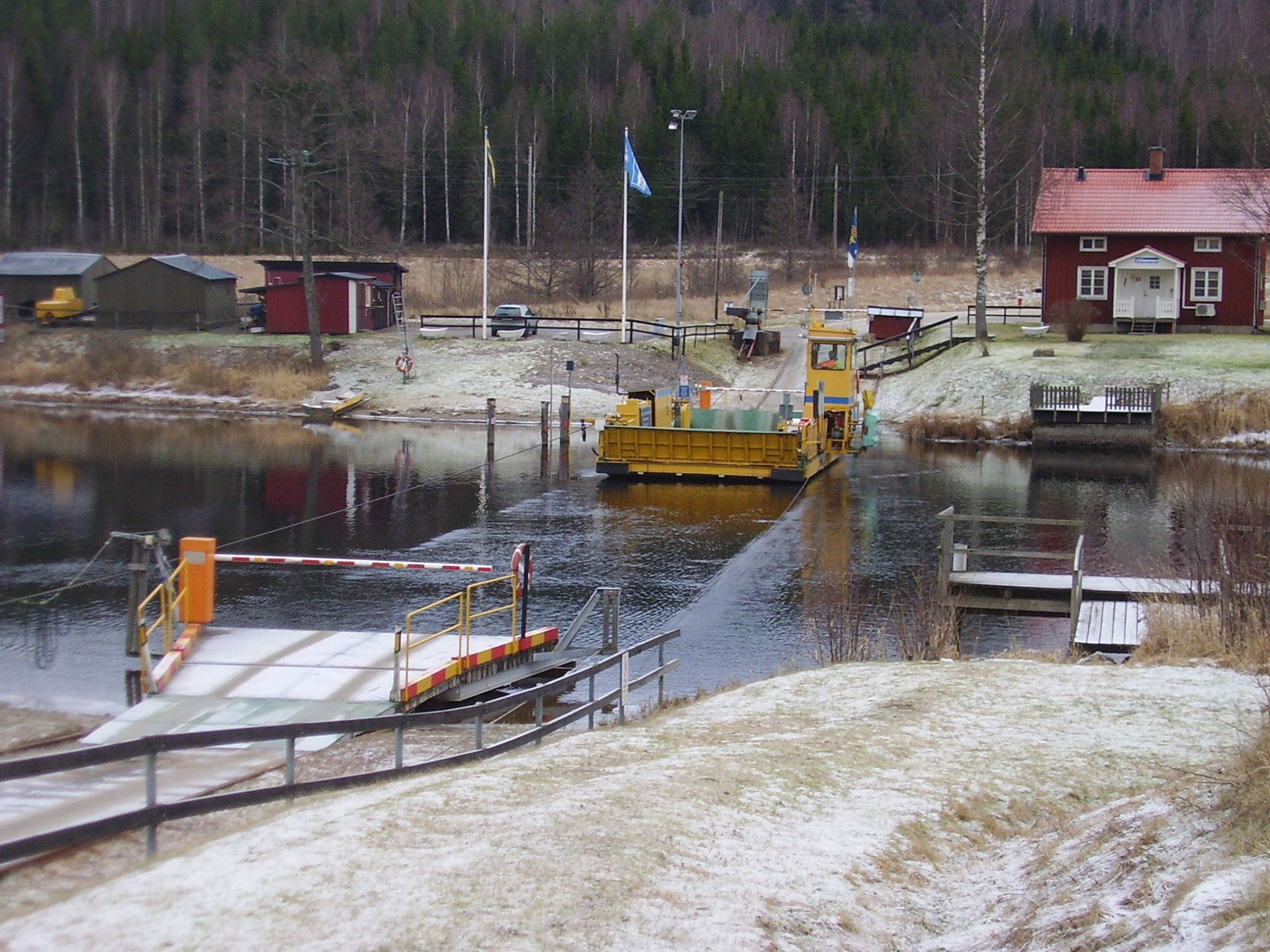 Car ferry 'M/S Byälvan'